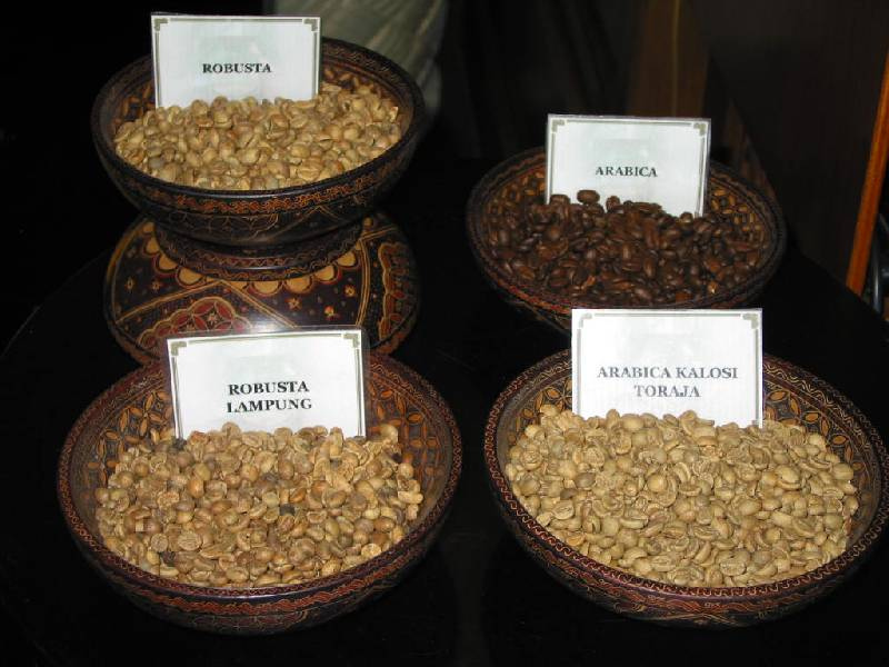 Indonesian Coffee, Shangri-La Hotel